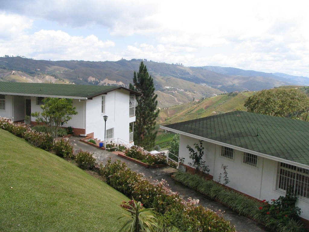 Pozo de Rosas Sector, Miranda State, Venezuela 4